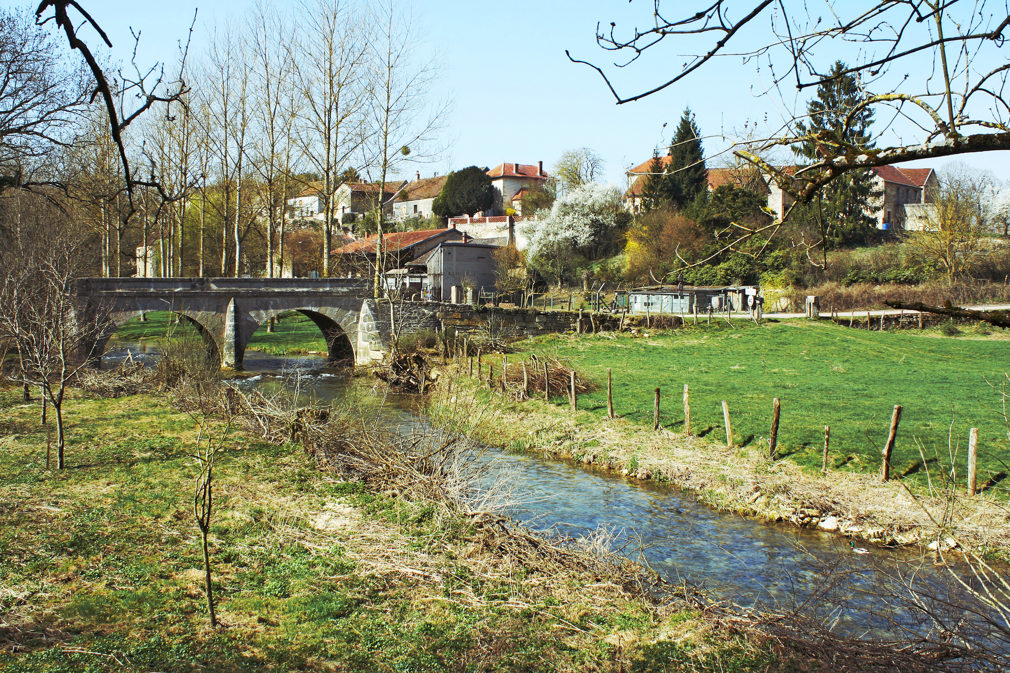 Brigde on Seine river in Bremur-et-Vaurois